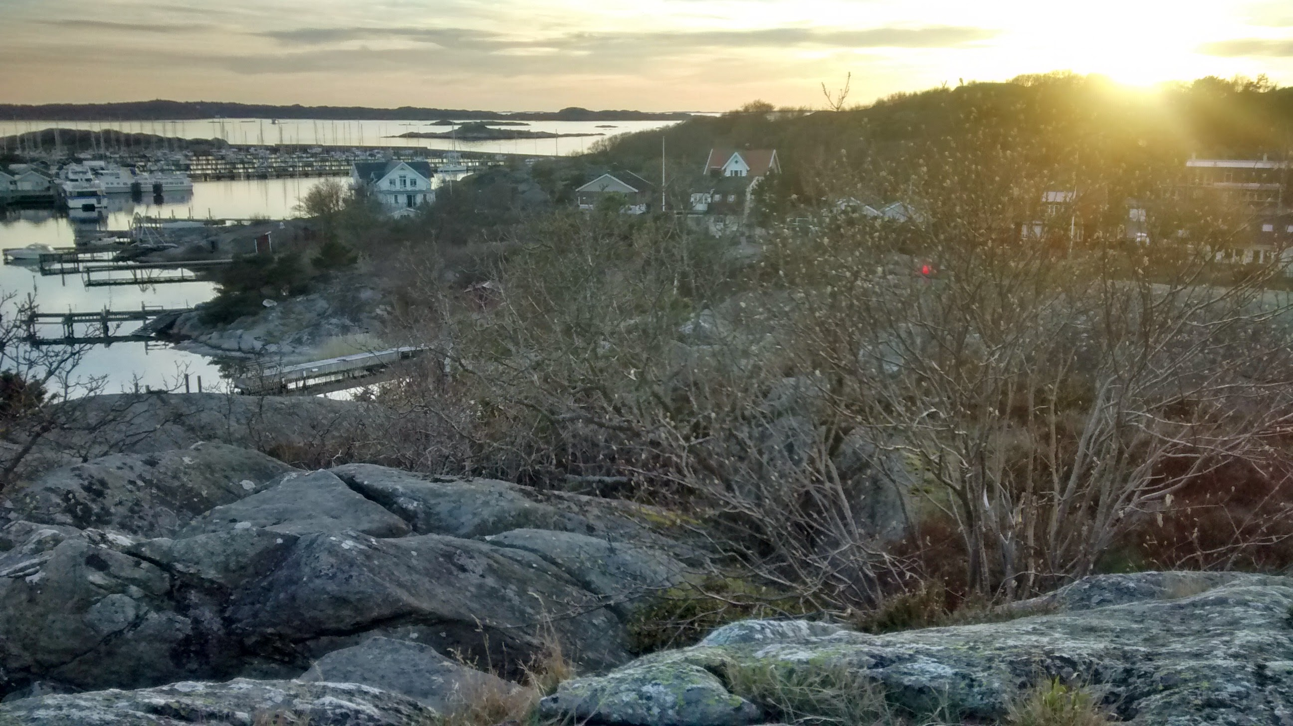 Southern Archipelago of Gothenburg